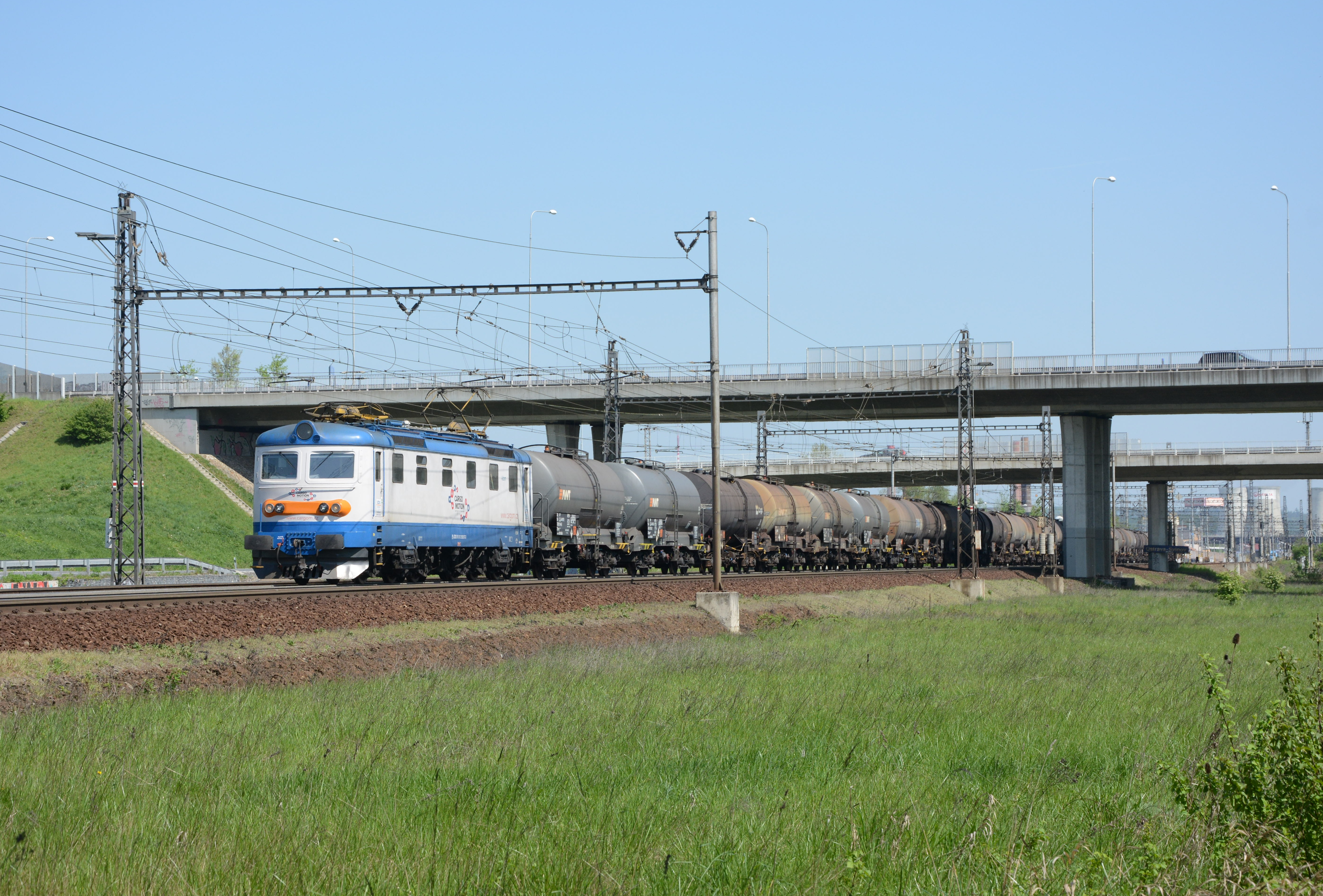 Locomotive 3 150 517 (ex 182-153) of SŽDS, hired to Cargo Motion, is hauling a tank cars train from Poland to Lhotka nad Bečvou (DEZA chemical works), Ostrava-Svinov station, Czech Republic